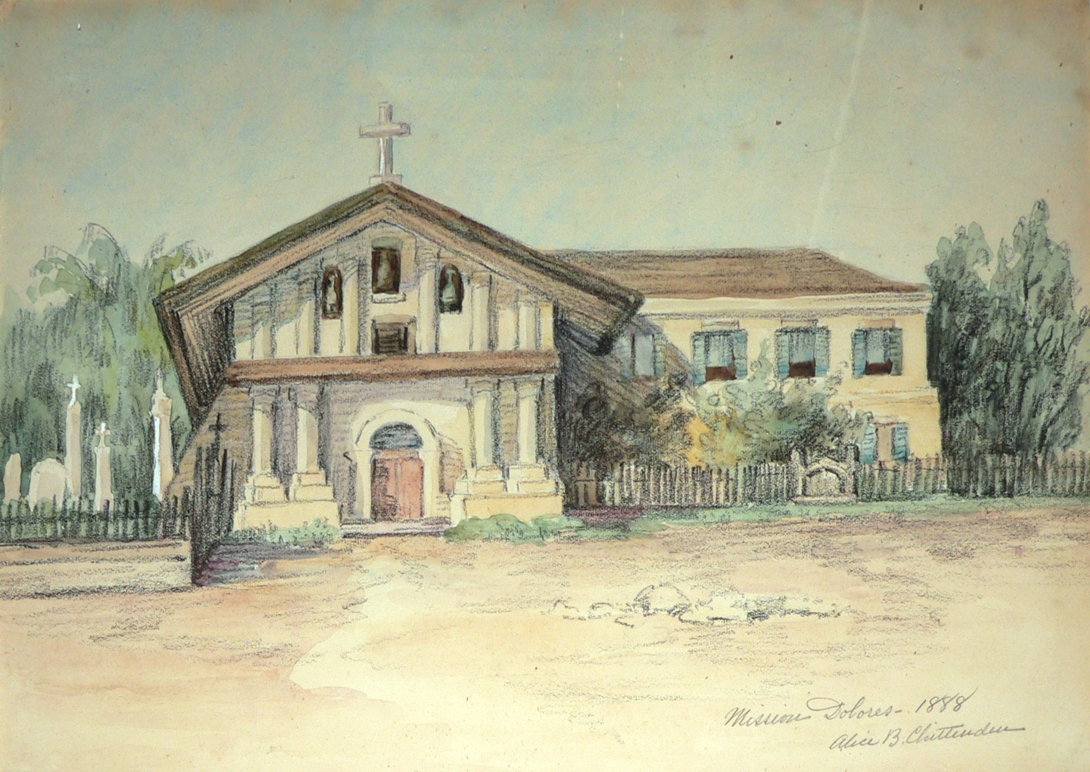 watercolor painting of mission dolores in san francisco, by alice brown chittenden, 1888 (dated on painting)